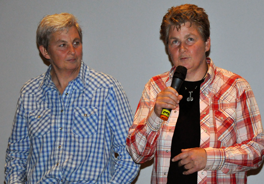 Jools and Lynda Topp at the screening of The Topp Twins: Untouchable Girls at the Scotiabank Theatre